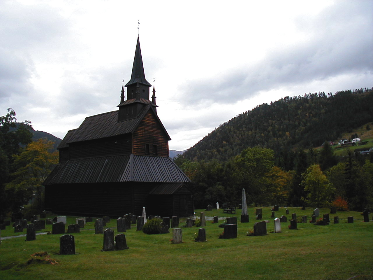 Kaupanger stave church